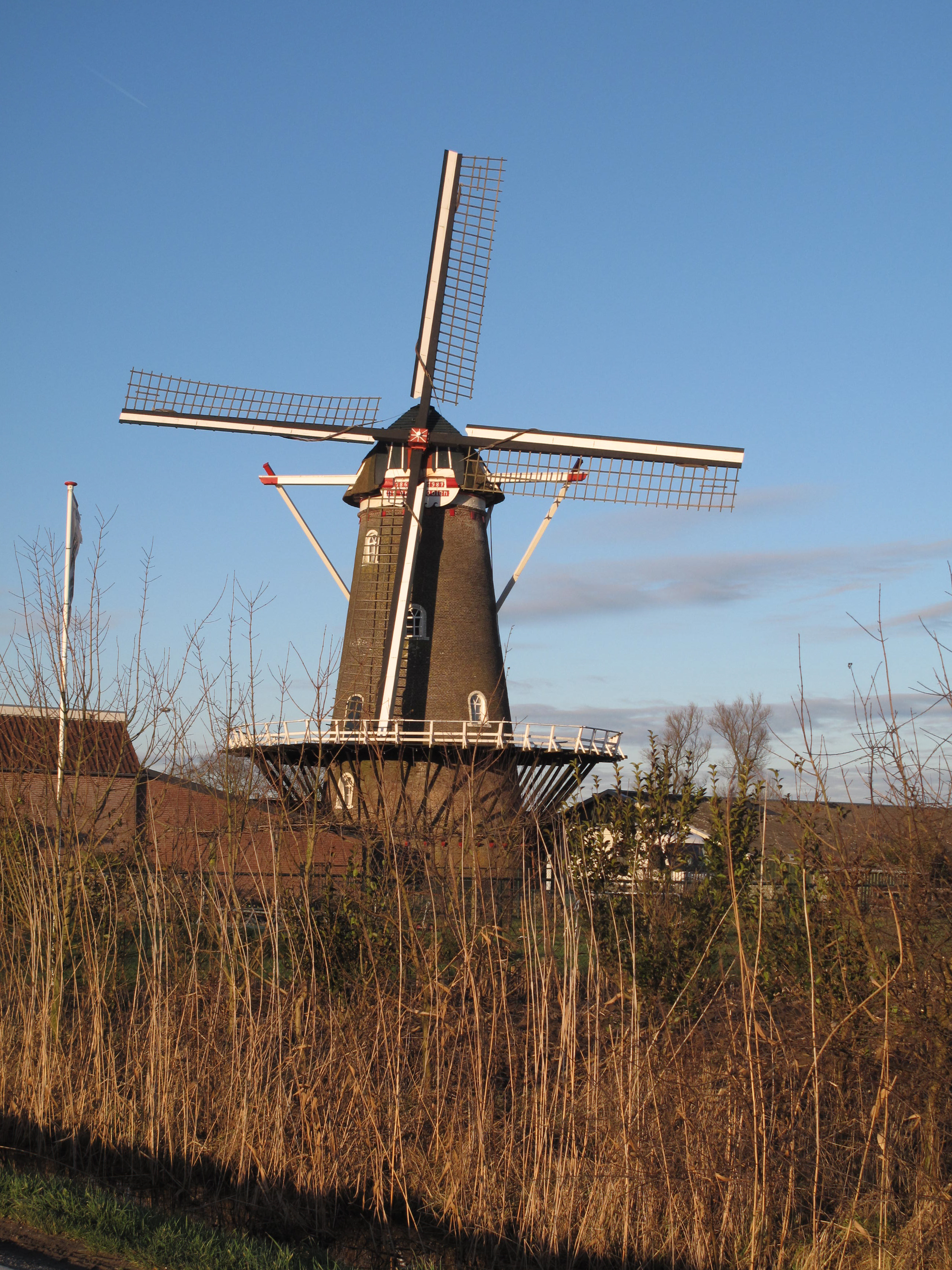 Afferden, windmill: korenmolen de Drie Waaien